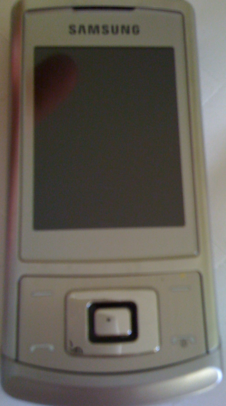 Photo of Samsung Mobile cellphone S3500